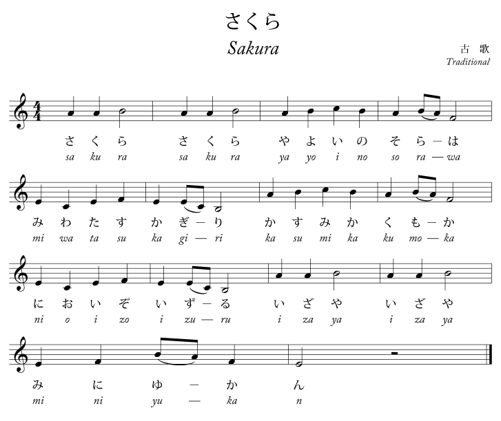 Words and music of the traditional Japanese song "Sakura"